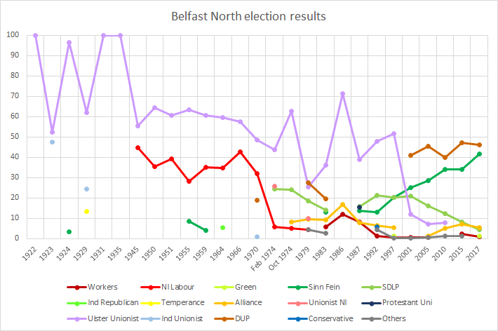 Belfast North election results